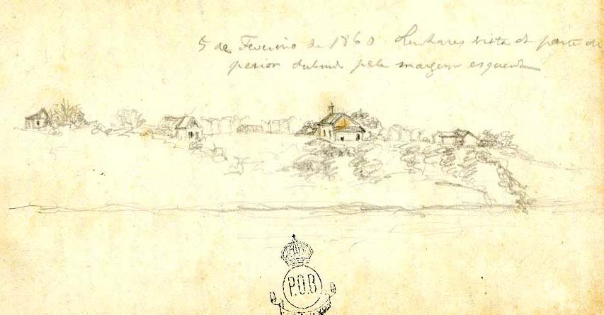 Linhares village drawn by Emperor Pedro II of Brazil.